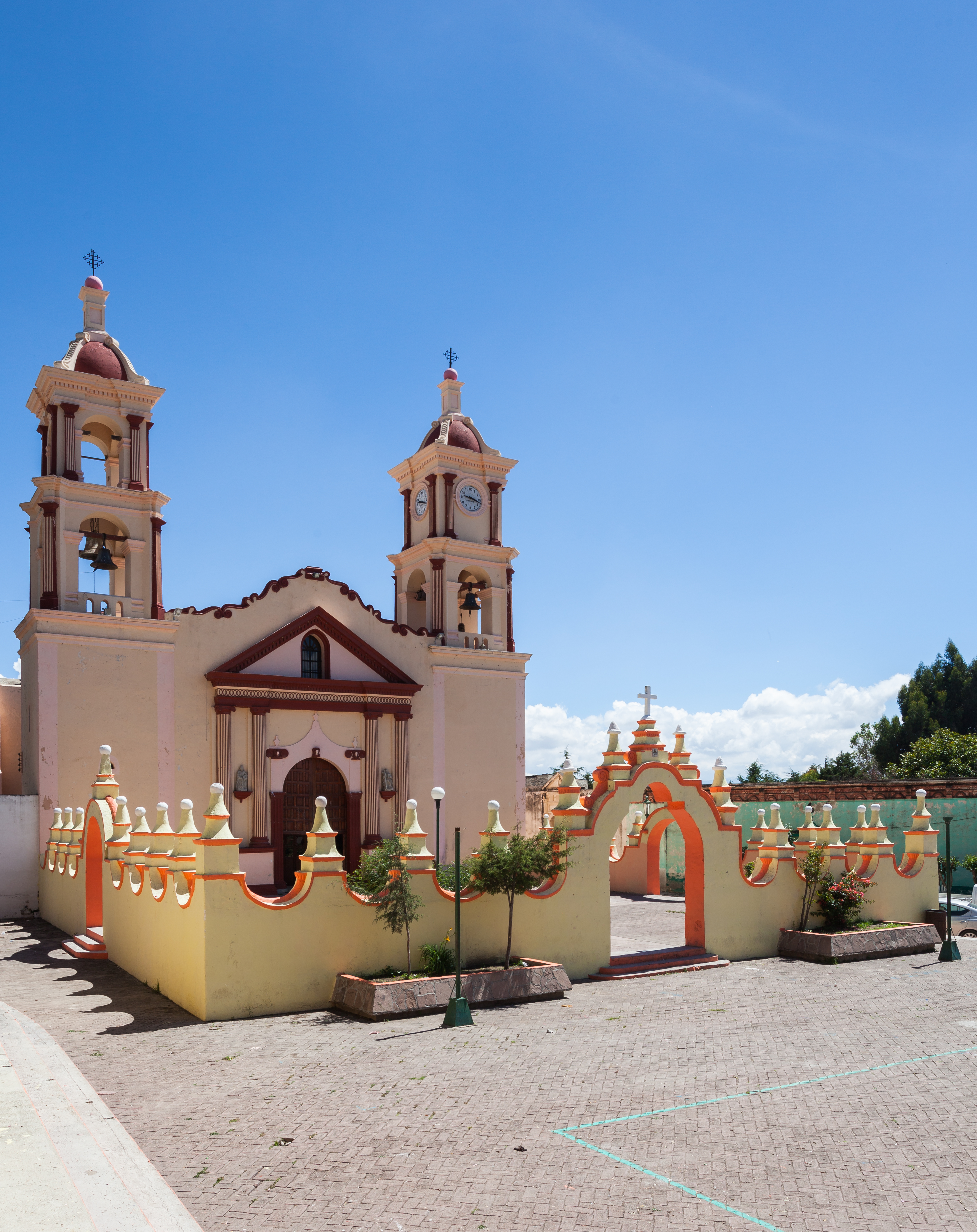 Hermitage of St Peter, Tepeyahualco, Puebla, Mexico